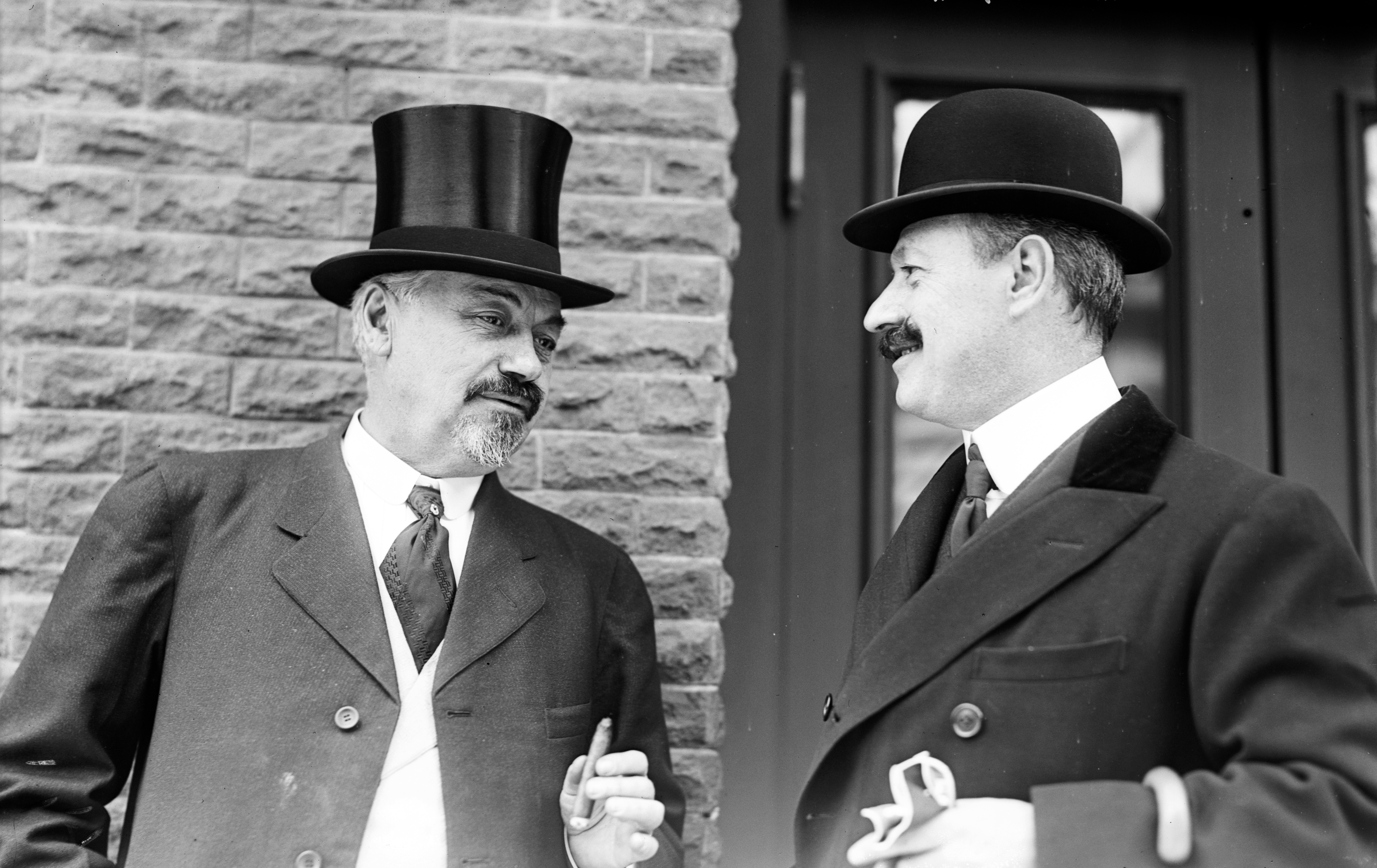 Oscar Hammerstein I (1847–1919, left), theater impresario in New York City, and Cleofonte Campanini (1860–1919, right), Italian conductor